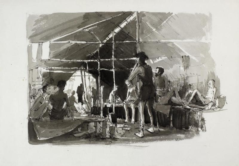 I. a Ward in the Chungkai Hospital image: The interior of a hospital ward of a prisoner-of-war camp. There are two rows of basic-looking beds, one row on the left and one on the right. Thin, severely malnutritioned men sit on these beds, with one man standing between the rows of beds in the centre foreground. The doorway of the hut can be seen in the centre background with the dark silhouettes of three other men.